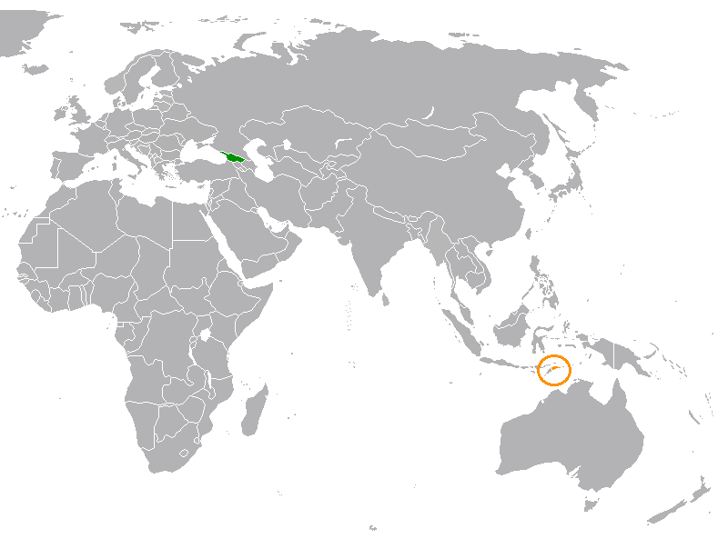 Map showing locations of both Georgia and East Timor